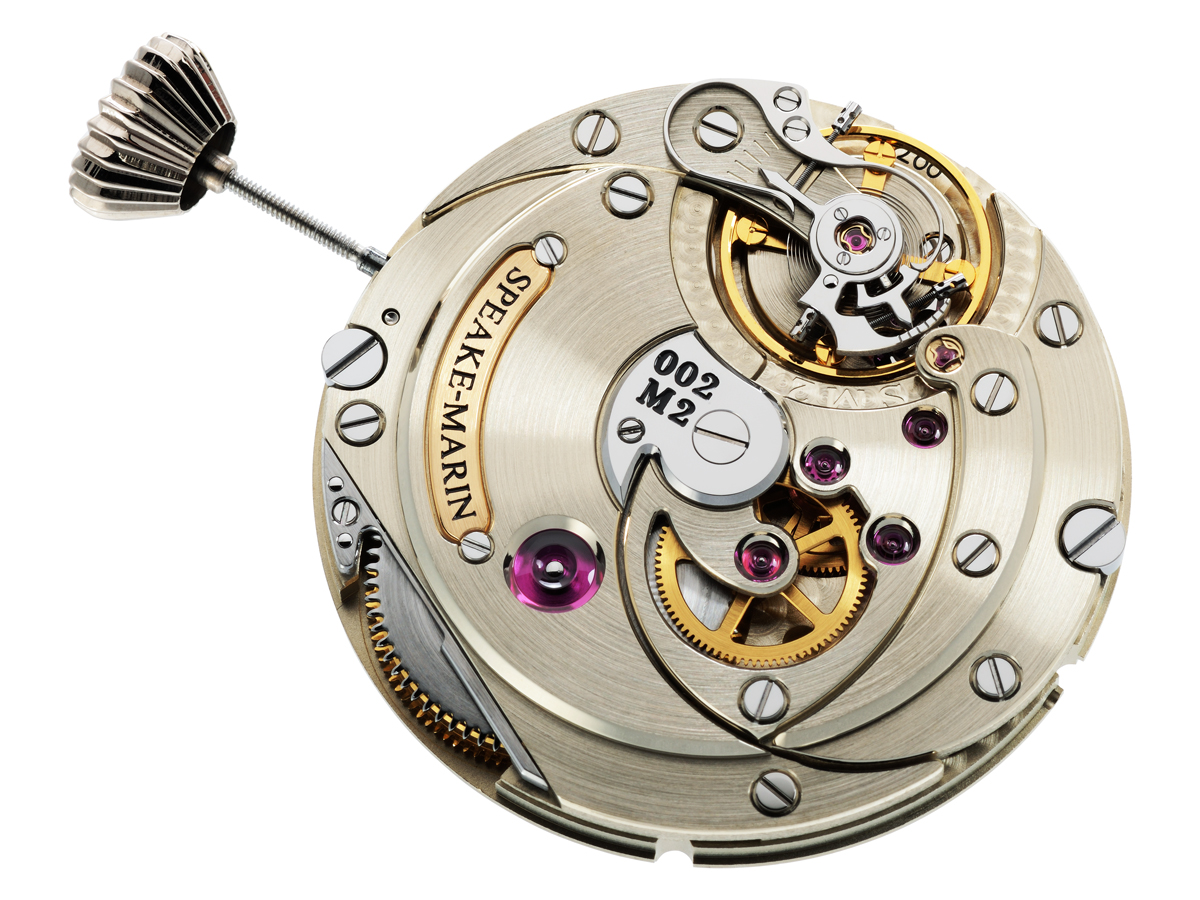 Speake-Marin in-house developed SM2m movement featuring hand-finished components and over-engineered quality. The SM2 is found in both the Marin 1 (automatic winding) and Marin 2 (manual winding) timepieces. For more information, please visit